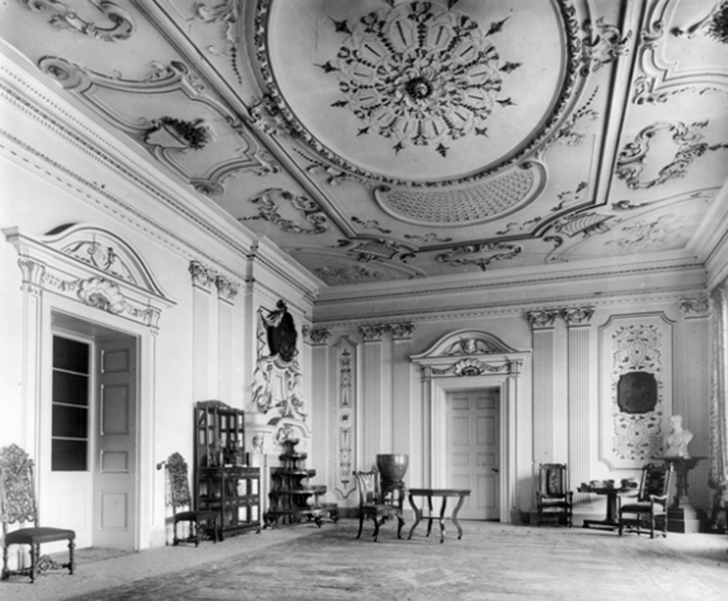 The entrance hall at Sutton Scarsdale Hall in 1919